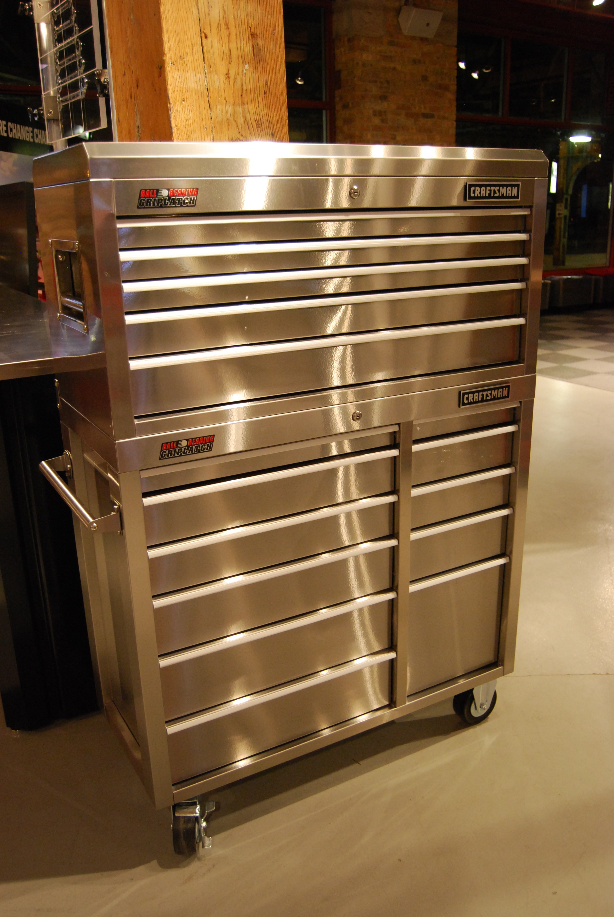 A Craftsman tool chest, photographed at the Craftsman Experience store in Chicago.